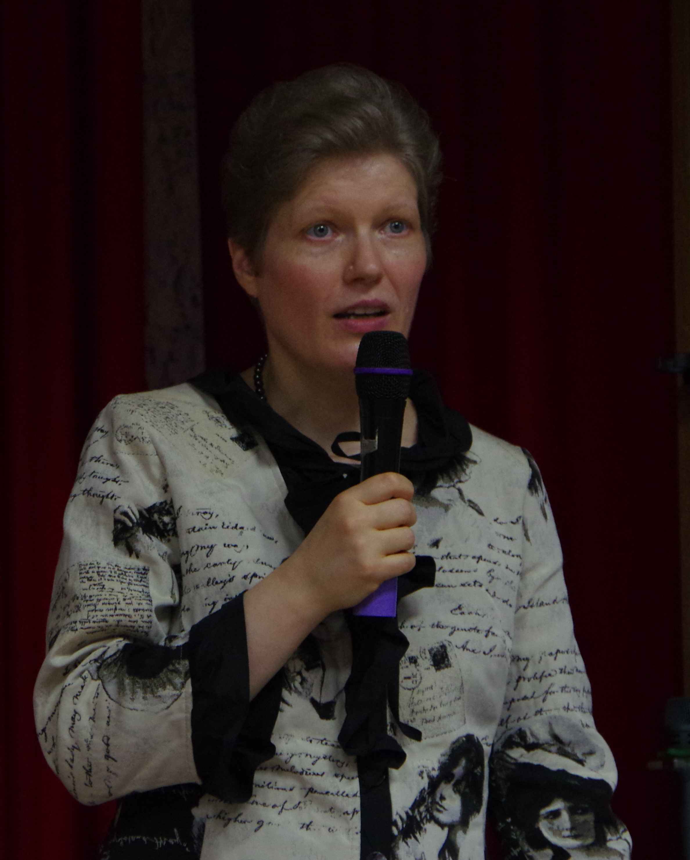 German Astronomer Eva K. Grebel